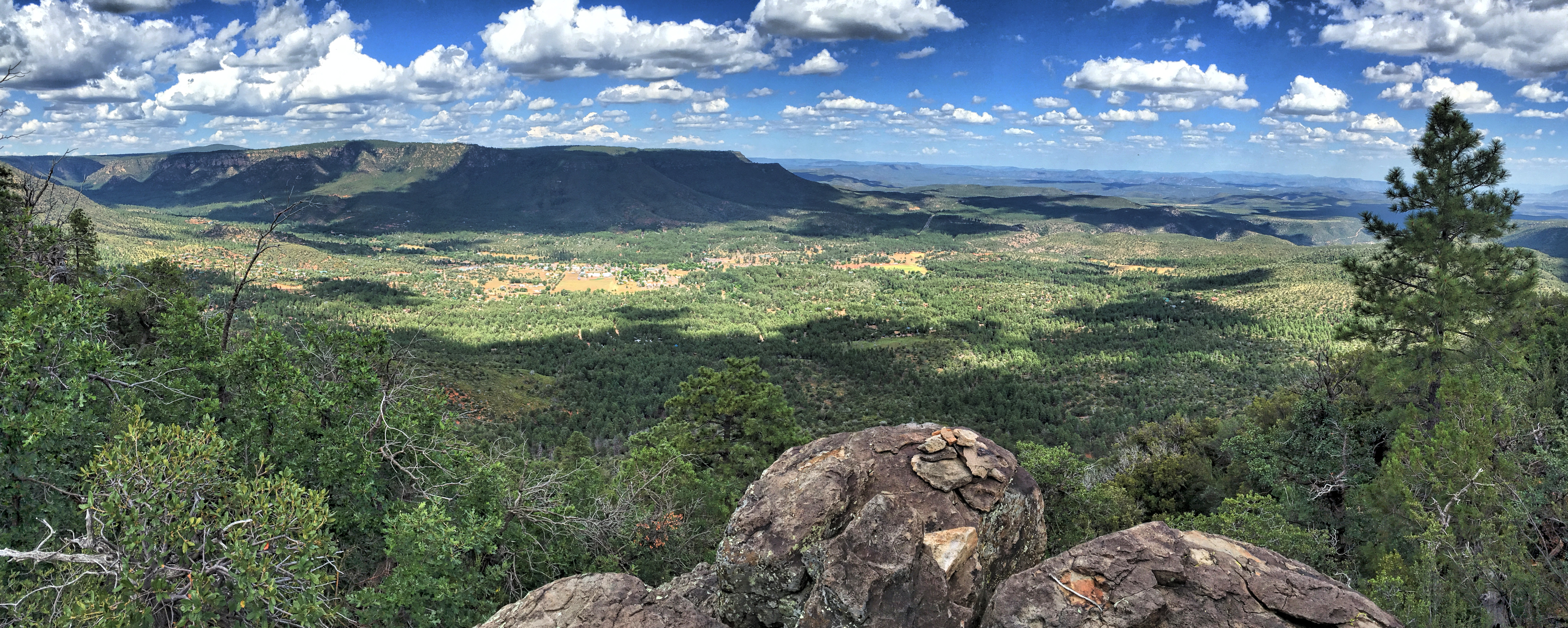 View from atop Strawberry Mountain, looking east over the town of Pine, AZ. This is about the 5th time I've explored up here, it's a killer pitch to get to the top, and no trails to follow. But there is virtually no sign of people either, except very very far away.